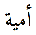 The arabic text "أمية"